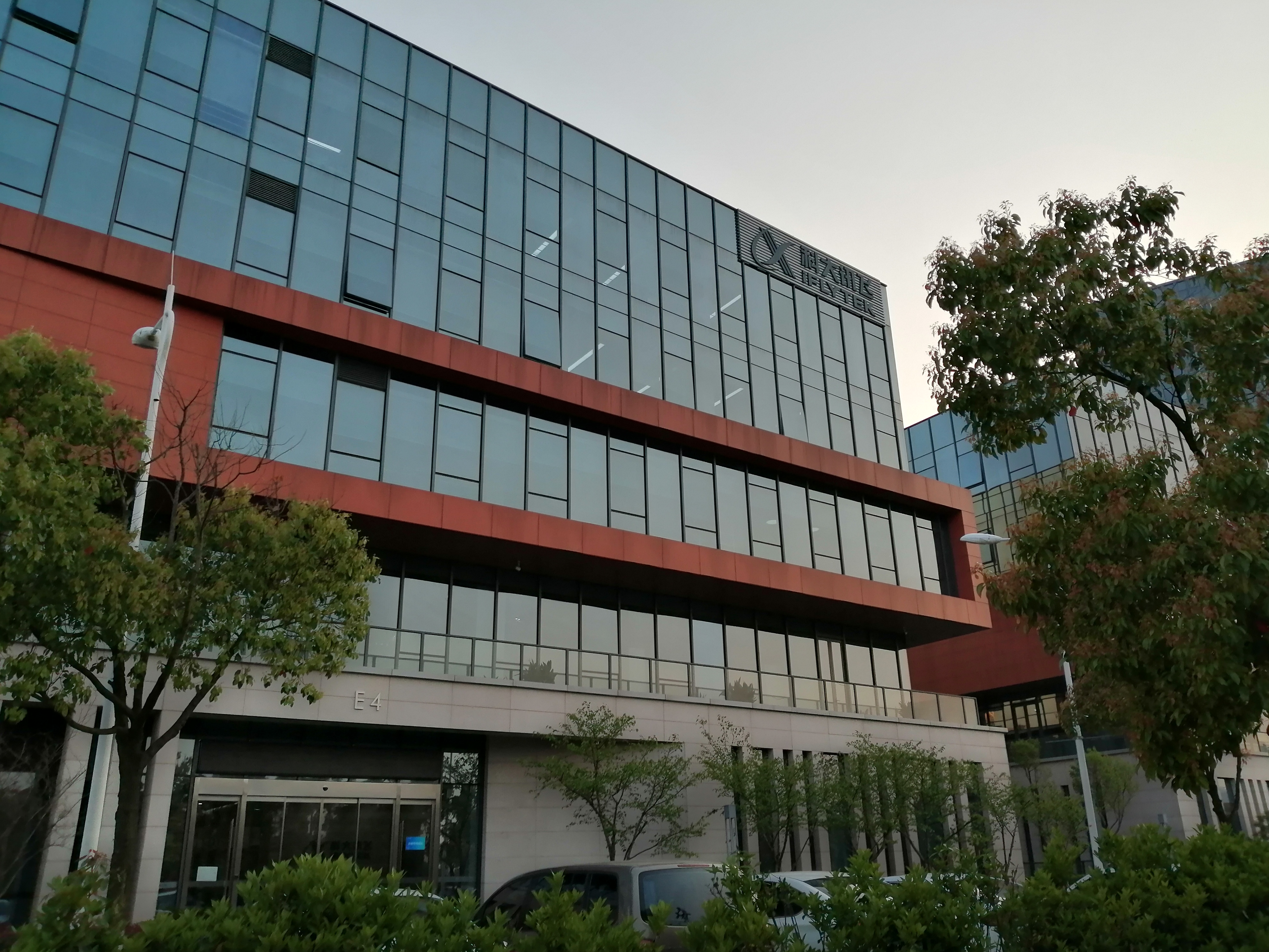 The famous voice recognition (AI) company's branch, located at AI Industry Park, Jinji Lake Avenue.